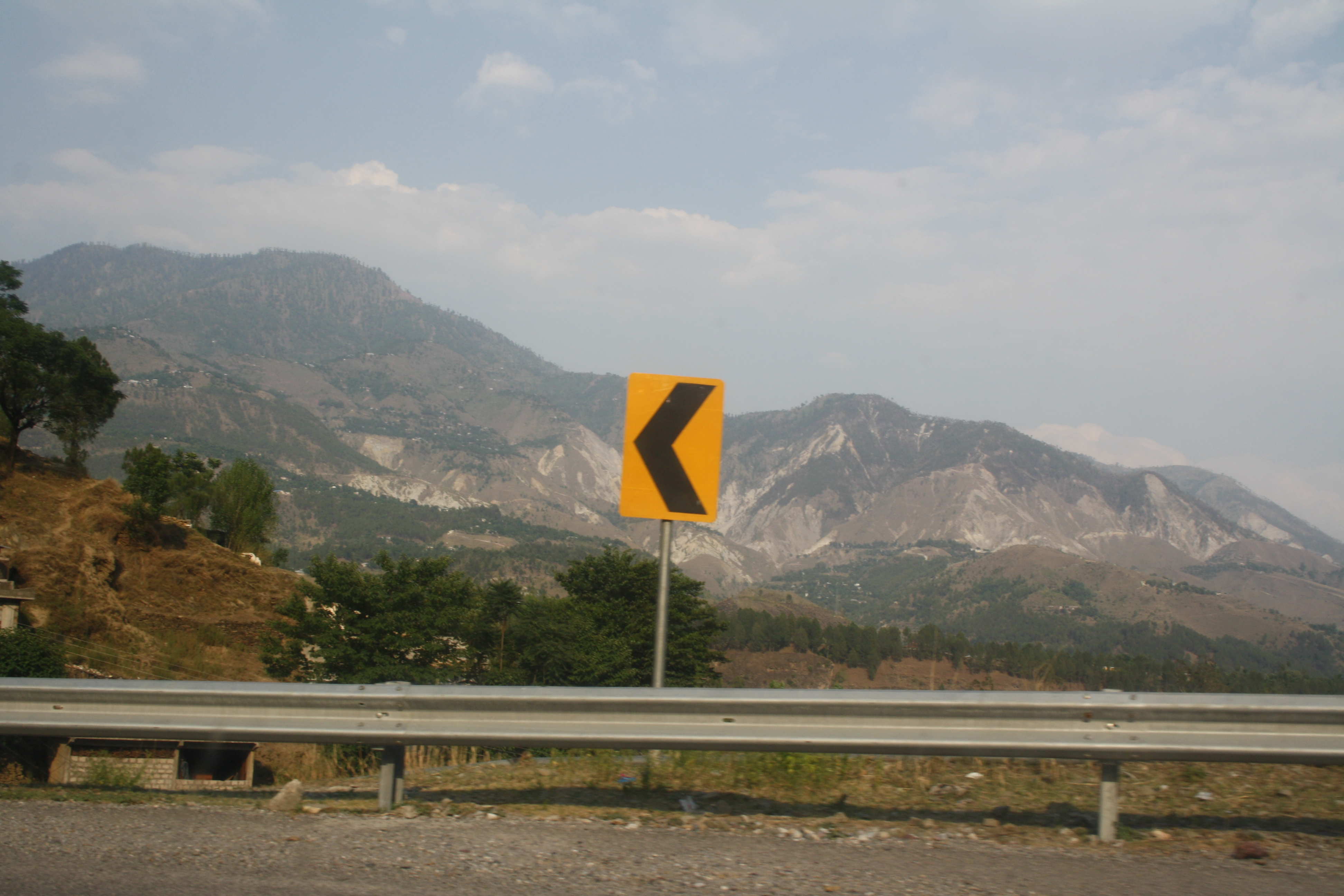 Traffic logo on raod leading to Naran.